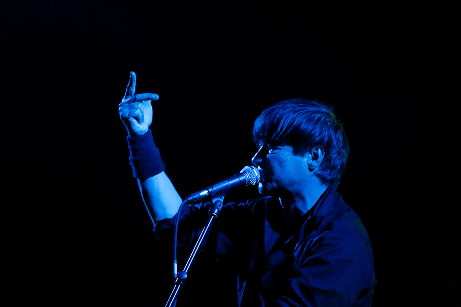 Abwärts Grabenhalle 31.10.2009